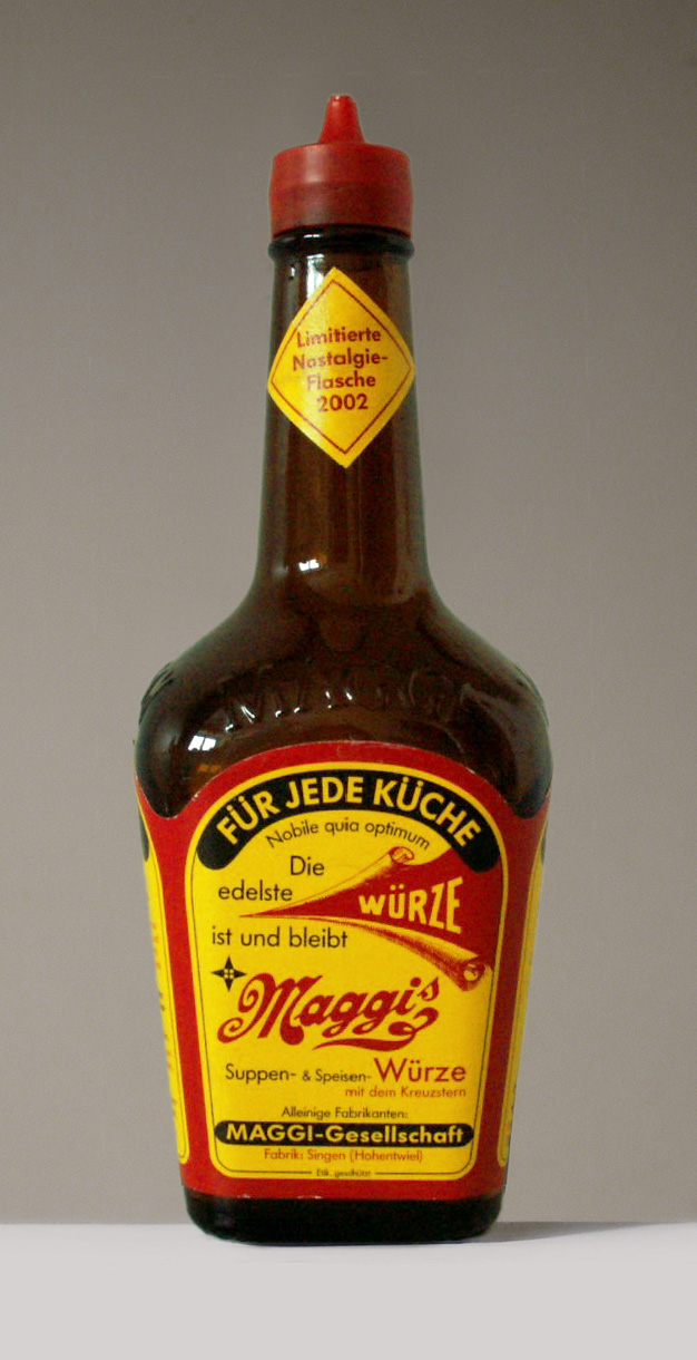 Maggi is a seasoning Ursprüngliches Foto von ChiemseeMan